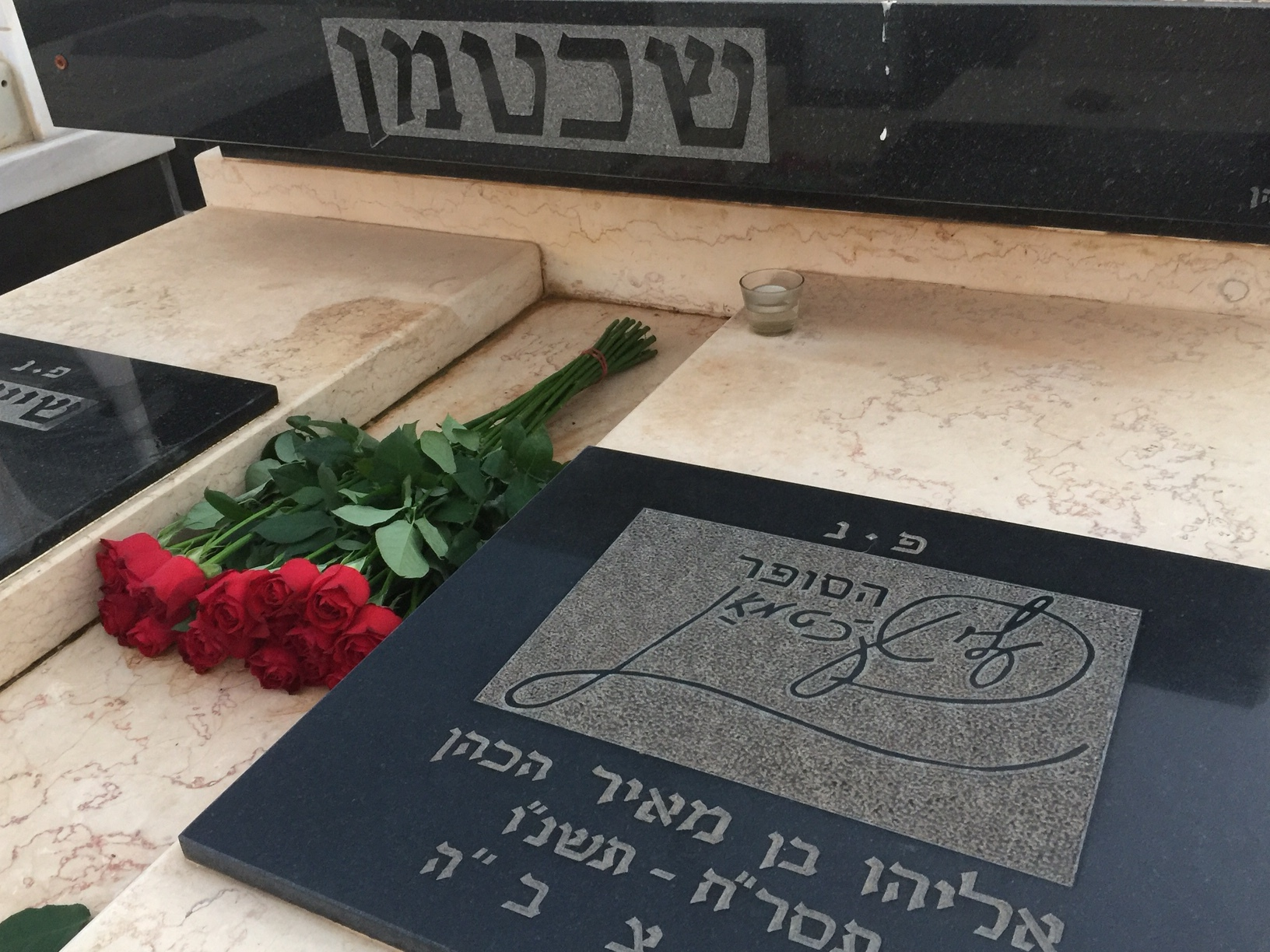 Eli Schechtman grave, Kiriat Bialik, Israel